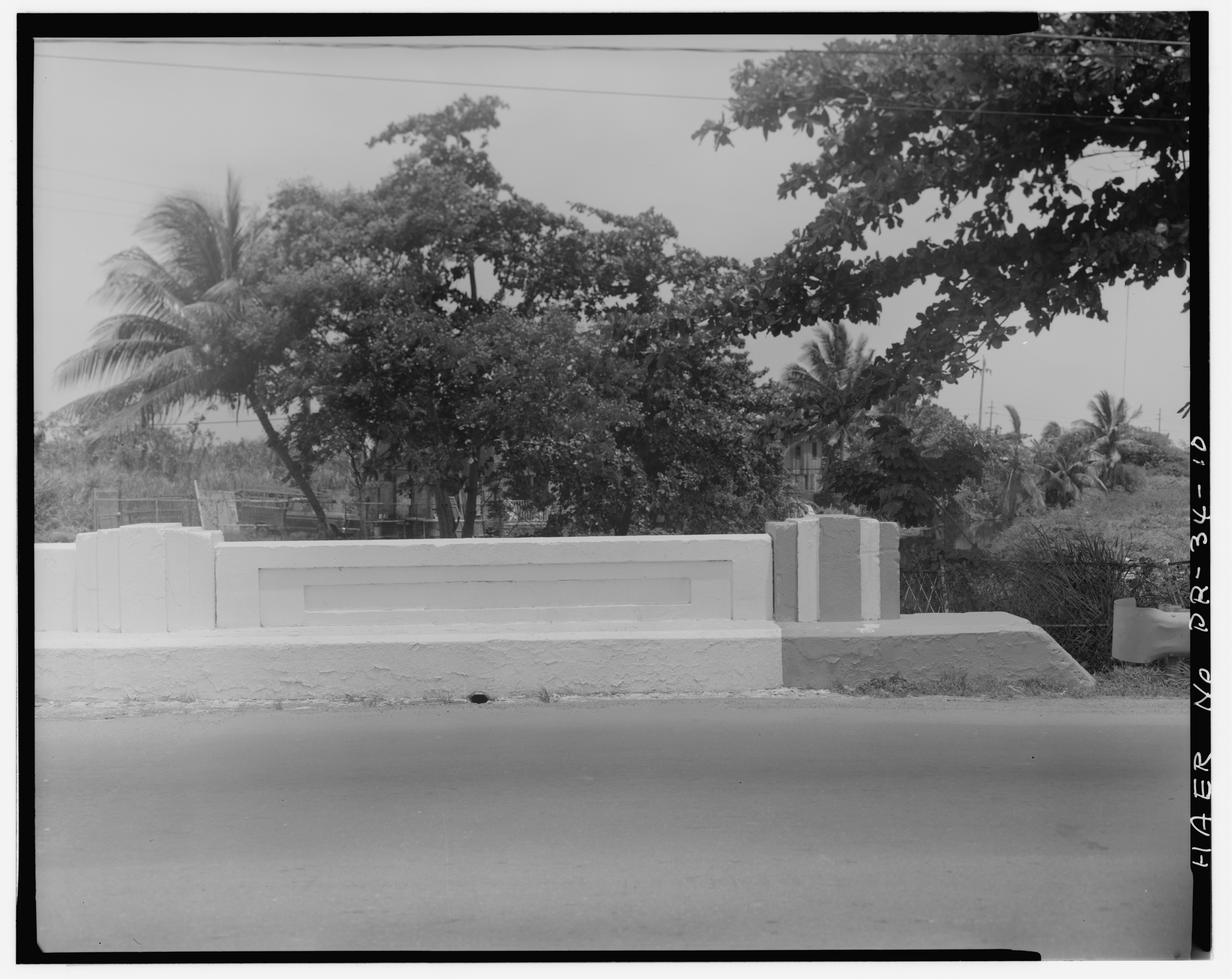 Medium: 4 x 5 in. Reproduction Number: HAER PR,25-CAT,1--10 Rights Advisory: No known restrictions on images made by the U.S. Government; images copied from other sources may be restricted. ( Call Number: HAER PR,25-CAT,1--10 Repository: Library of Congress Prints and Photographs Division Washington, D.C. 20540 USA Place: Puerto Rico -- Catano Municipio -- Catano Collections: Historic American Buildings Survey/Historic American Engineering Record/Historic American Landscapes Survey Bookmark This Record